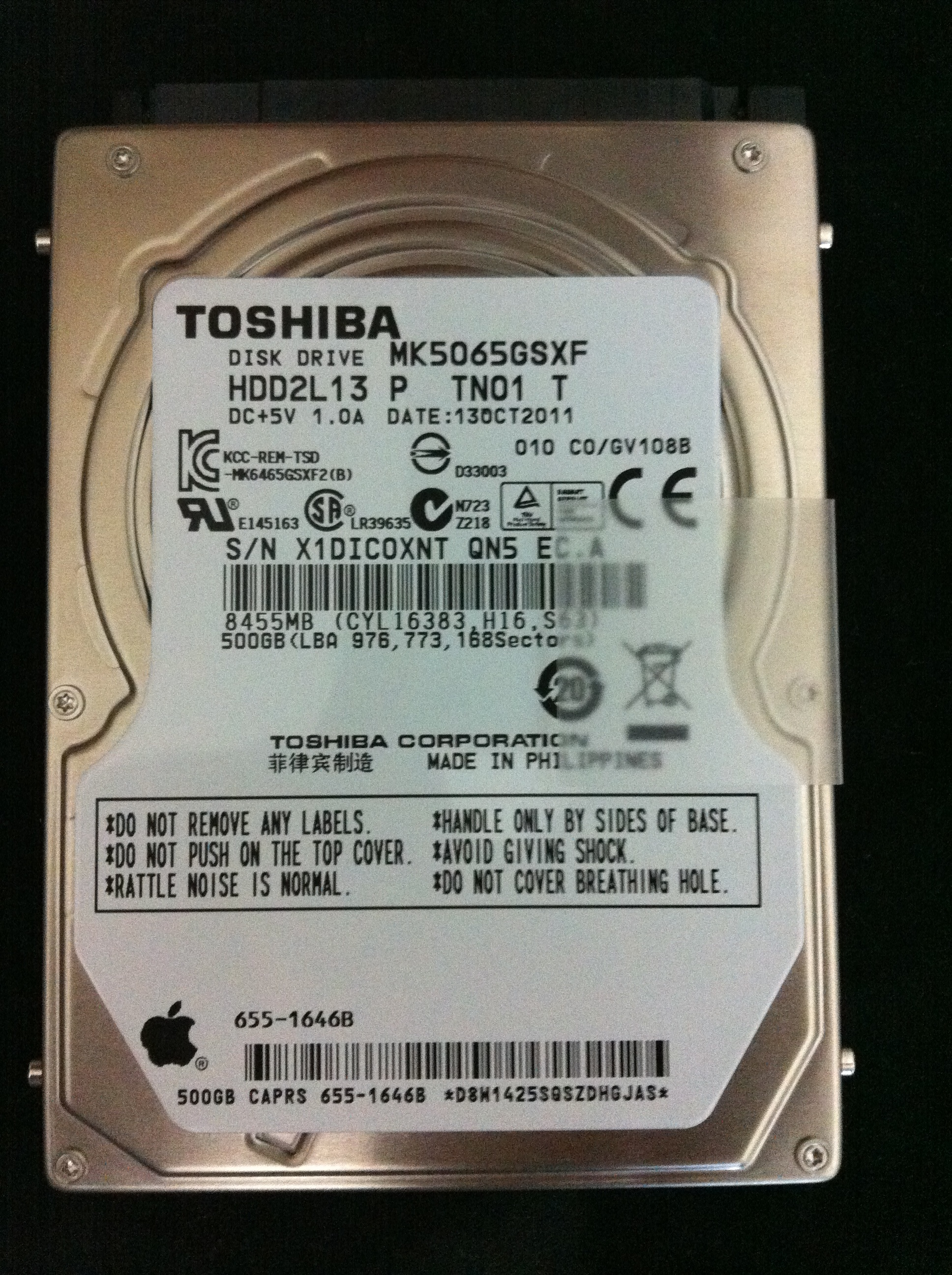 2.5" TOSHIBA 500GB HDD MK5065GSXF for Apple